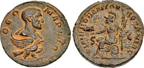 Coin of Philip the Arab. Struck at Antioch, circa AD 247-249, Julius Marinus right, slight drapery on far shoulder, supported by eagle standing right / Roma seated left, holding two figures standing on eagle in right hand, spear in left; shield at her side